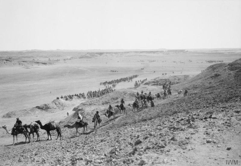 T E Lawrence and the Arab Revolt 1916 - 1918 Emir Feisal bin Husain al-Hashimi's army coming into Wejh.